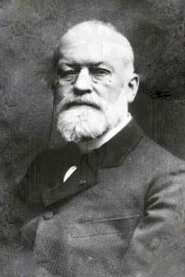 Portrait of Charles Louis Alphonse Laveran (1845—1922).